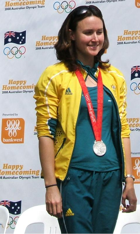 Jacqueline Lawrence at the 2008 Olympic homecoming parade in Adelaide